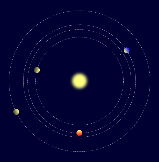 KOI 730 3:4:6:8